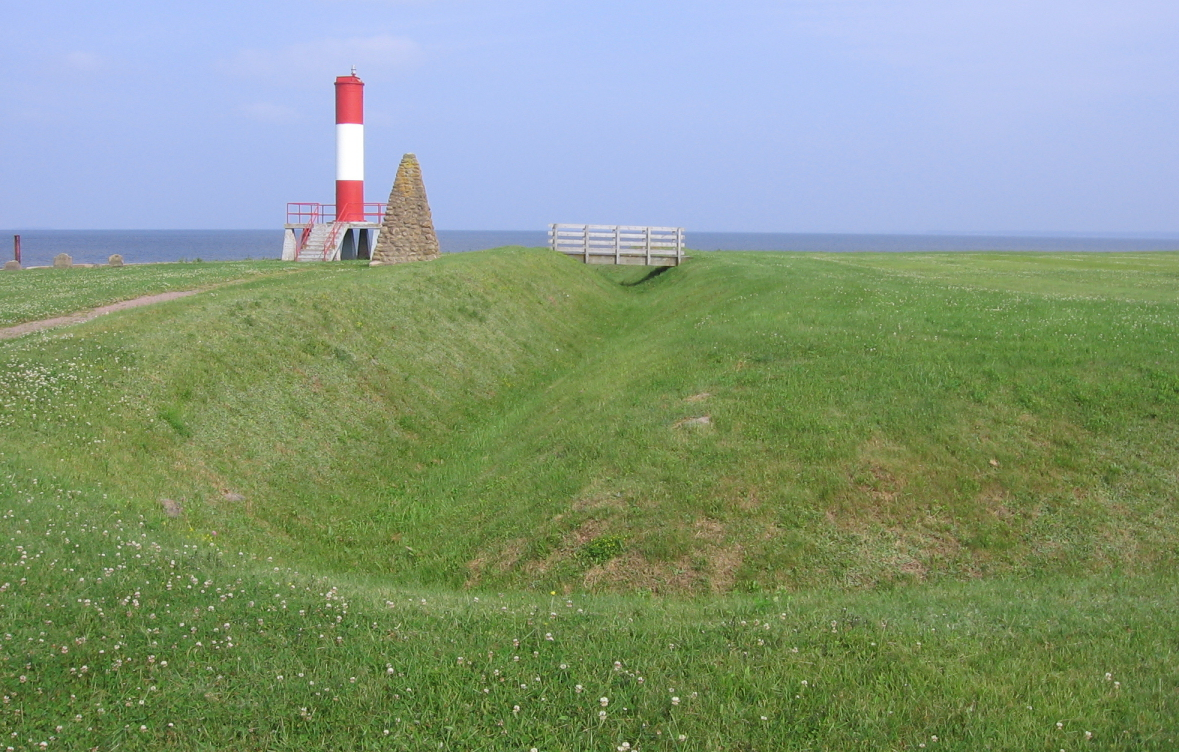 View of the remains of Fort Gaspareaux, Port Elgin, New Brunswick. Photographed by myself. Verne Equinox 00:12, 13 July 2006 (UTC)